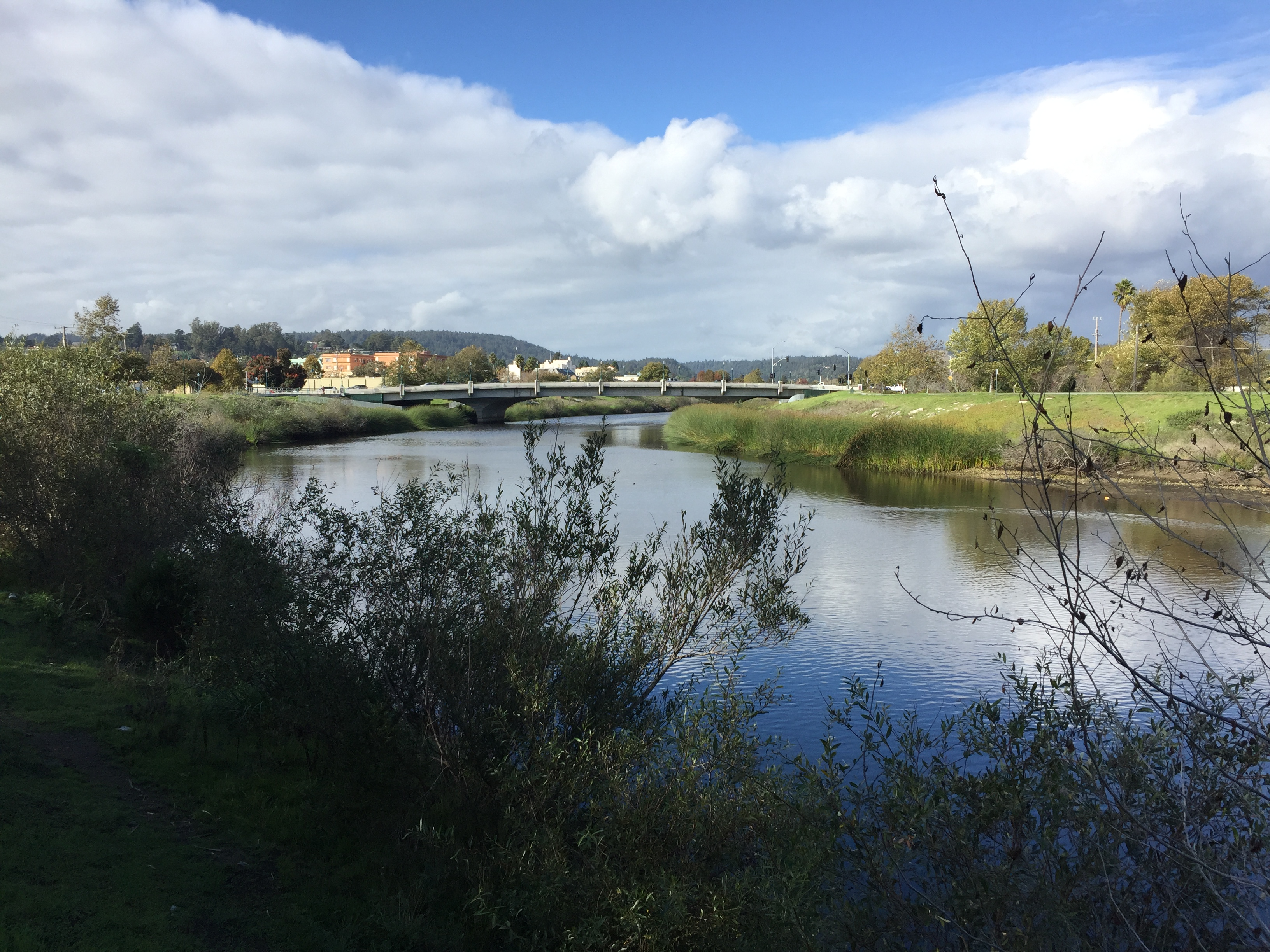 View from downtown Santa Cruz of the San Lorenzo River.